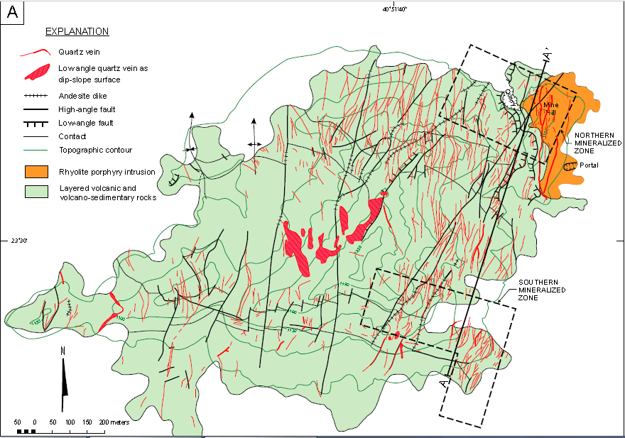 Mahd adh Dhah gold